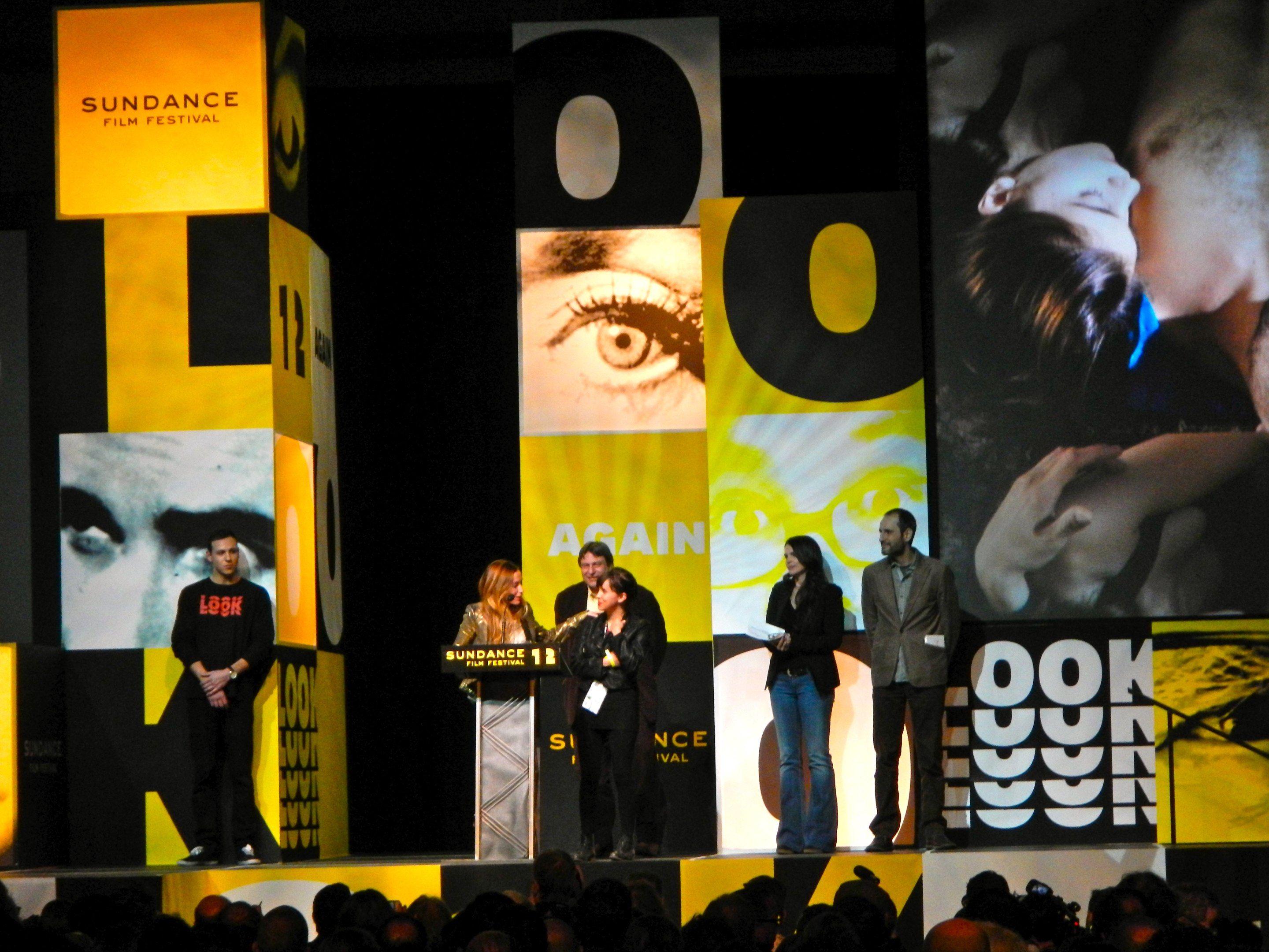 World Cinema Screenwriting Award, Drama for Young & Wild by Marialy Rivas and Camila Gutierrez, Sundance Awards Ceremony.